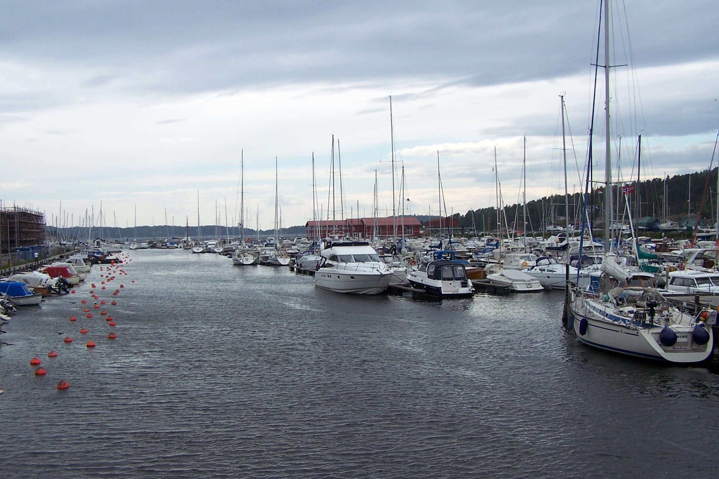 Son, Norway: Son småbåthavn (small vessel harbour)